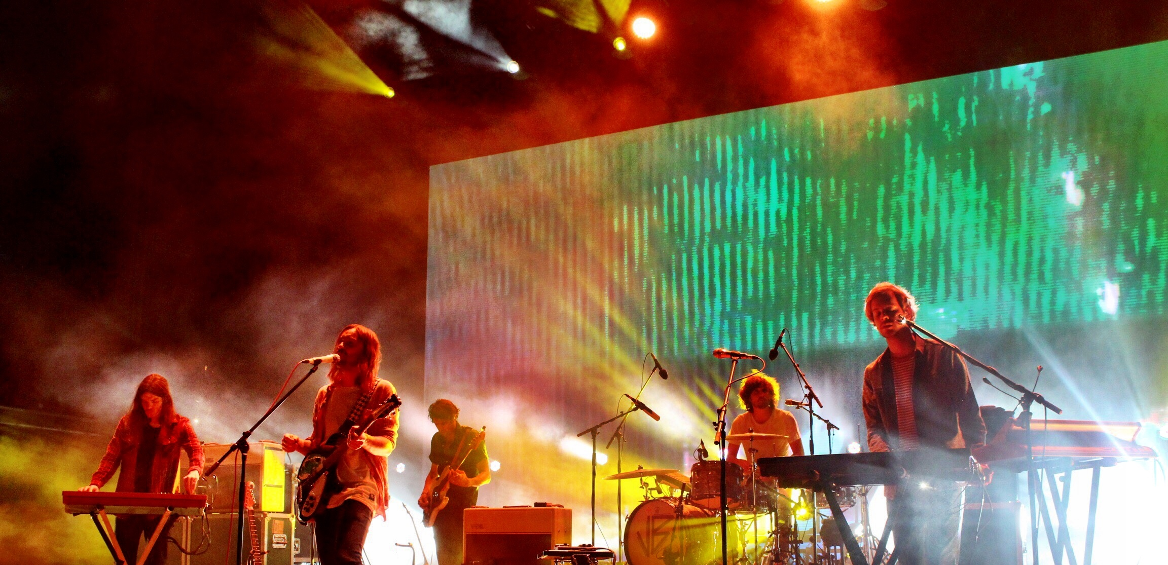 Tame Impala performing at Red Rocks Amphitheatre on August 31, 2016 in Denver County, Colorado.